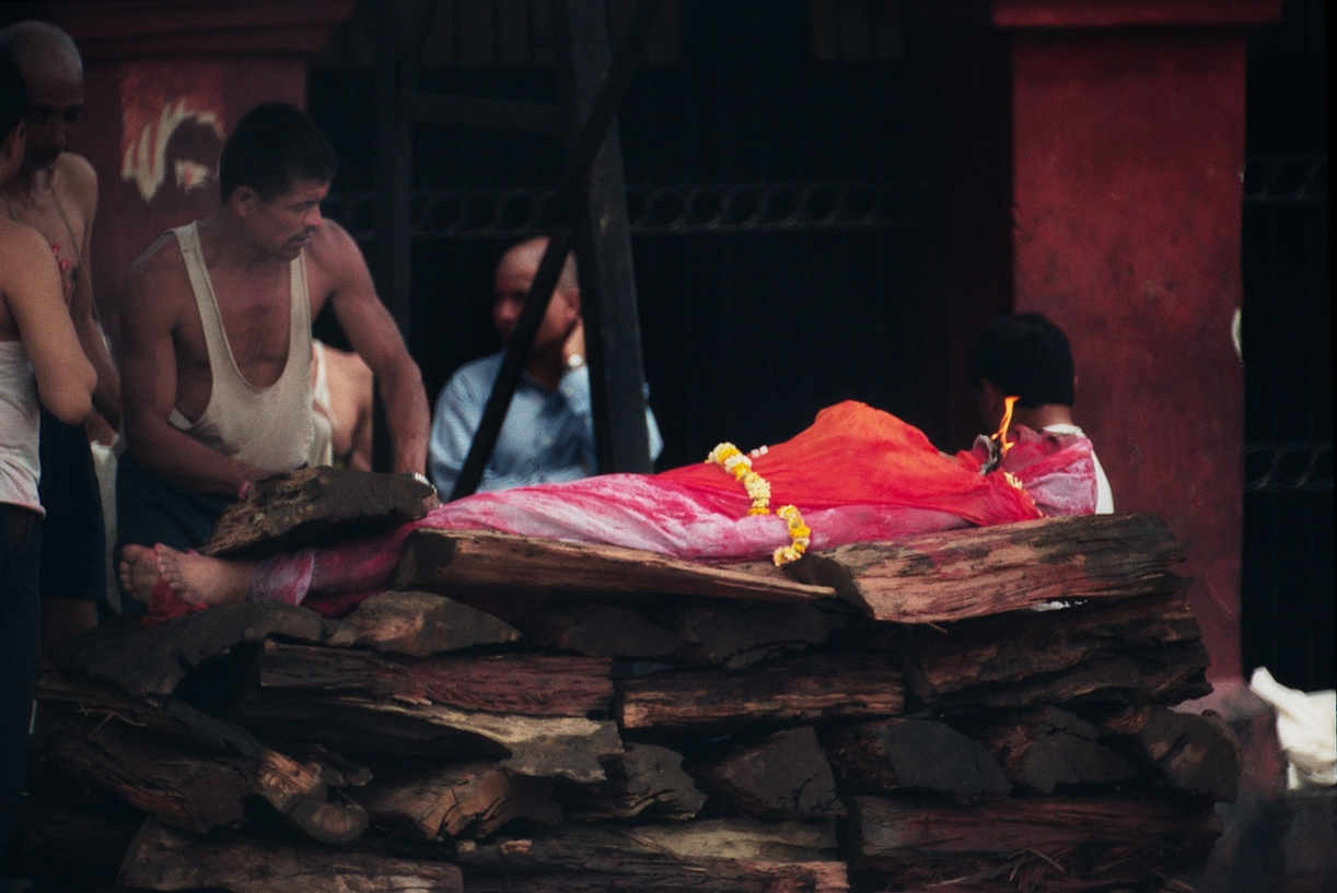 cremation